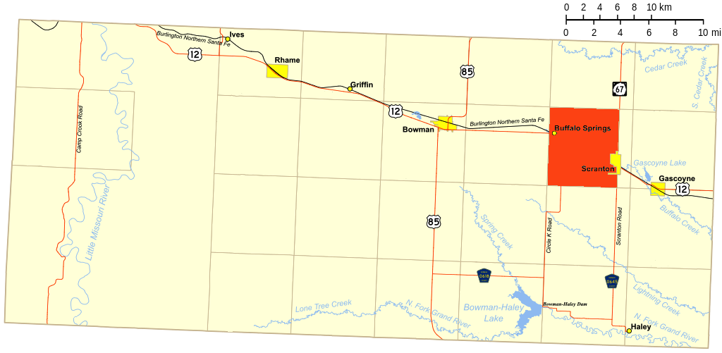 Map of Bowman County, ND, with Scranton Township highlighted